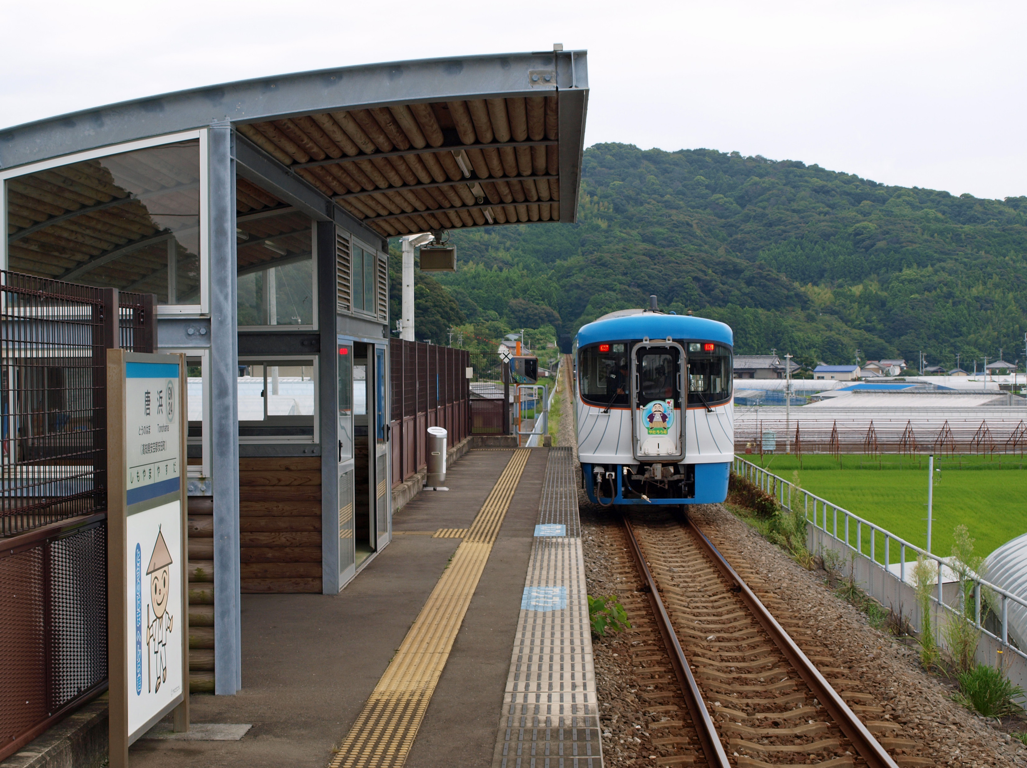 Tonohama Station, Gomen-Nahari Line（Asa Line), Tosa Kuroshio Railway, Japan